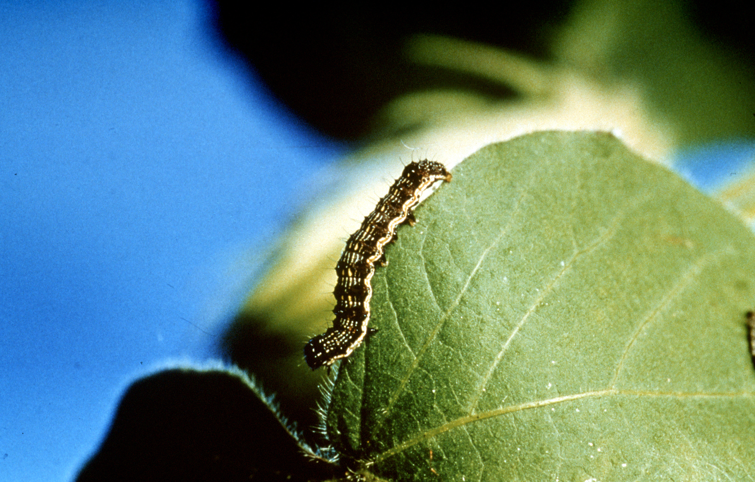 Heliothis is the biggest pest of the Australian cotton industry.